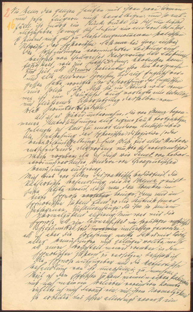 Part of Freuds Manuscript of Ratman